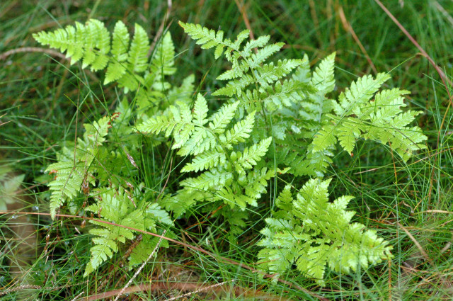 Dryopteris carthusiana from Commanster, Belgian High Ardennes .